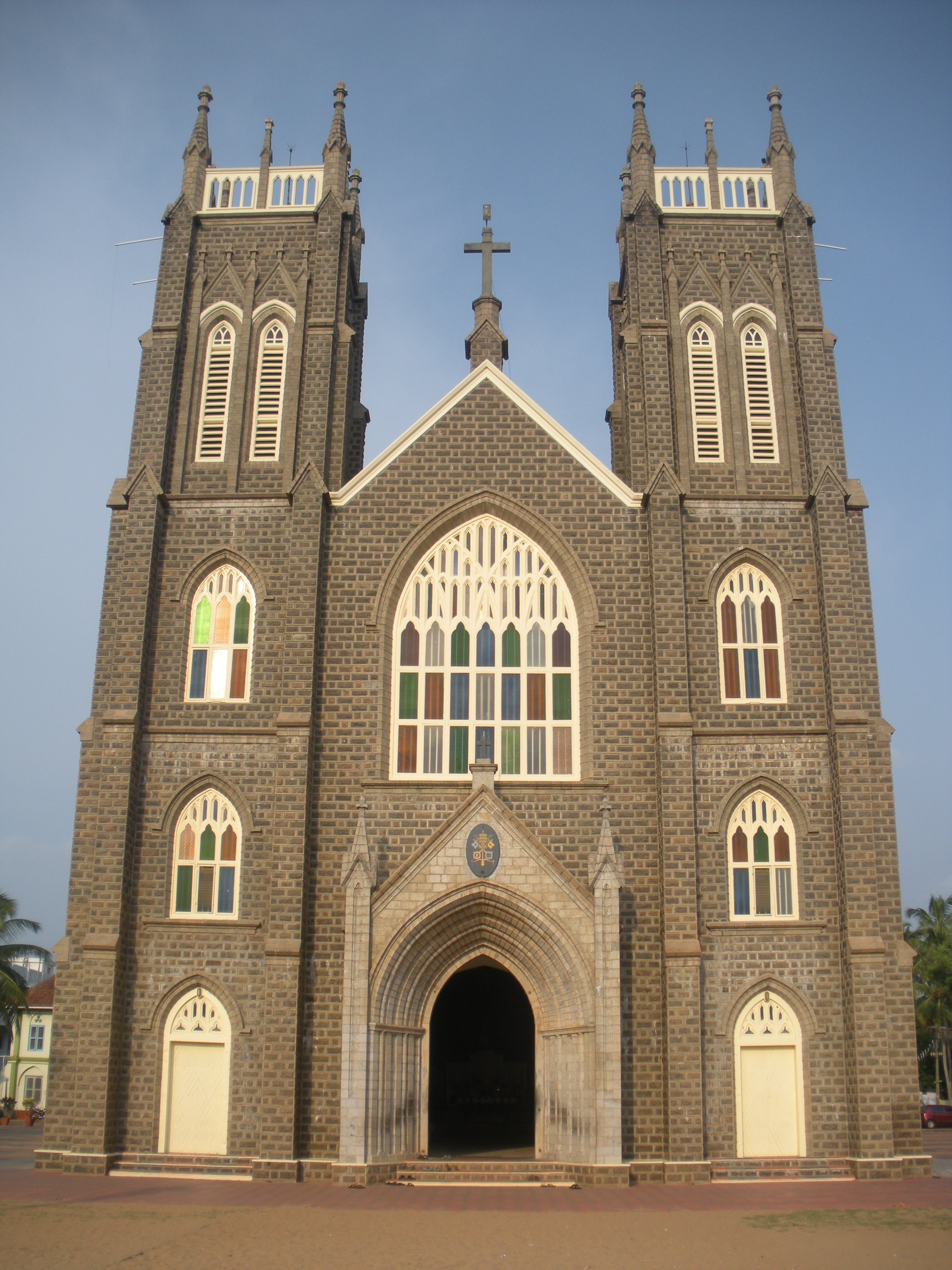 StAndrews Church of Arthunkal, Front View